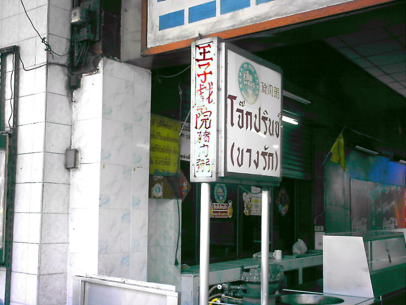 A Famous Porky Congee Hawker Stall at Prince's Cinema, Charoen Krung Road, Bangkok, Thailand 中文（香港）: 泰國，曼谷，石龍軍路，王子戲院，正門入口的著名豬肉粥檔